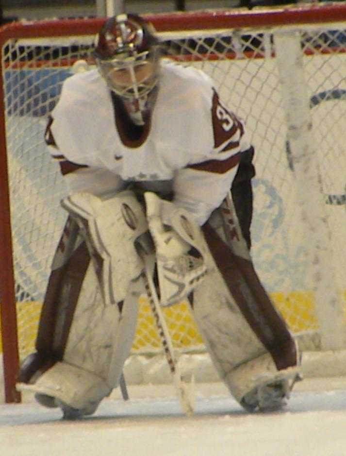 Edgars Masalskis of the Latviamen's national ice hockey team, warming up before a match against the Russia men's national ice hockey team in the 2010 Winter Olympics at Canada Hockey Place on February 16, 2010.